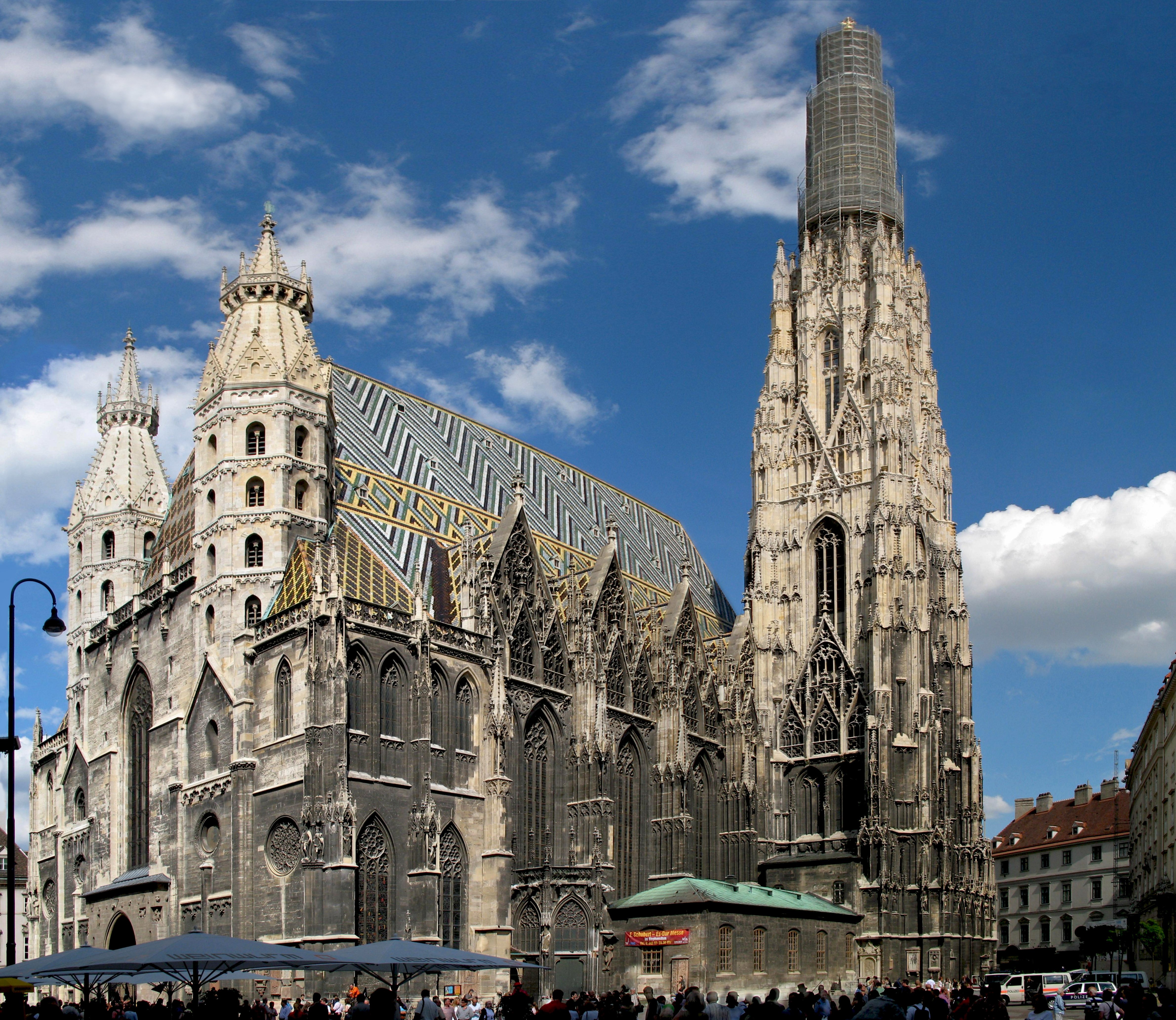 St. Stephen's Cathedral, Vienna, Austria This is a retouched picture, which means that it has been digitally altered from its original version. Modifications: Missing portions of sky were filled in.